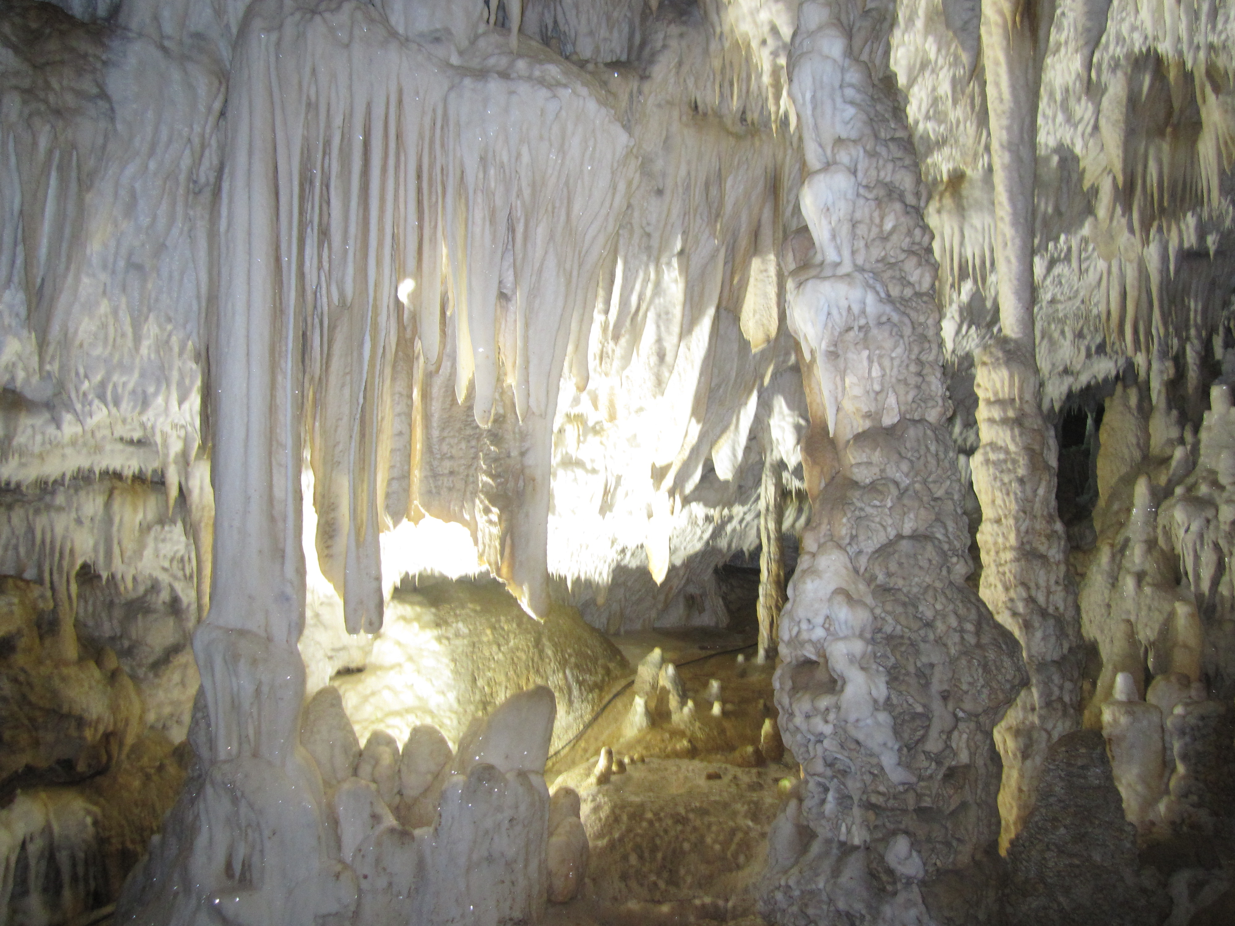 СП317